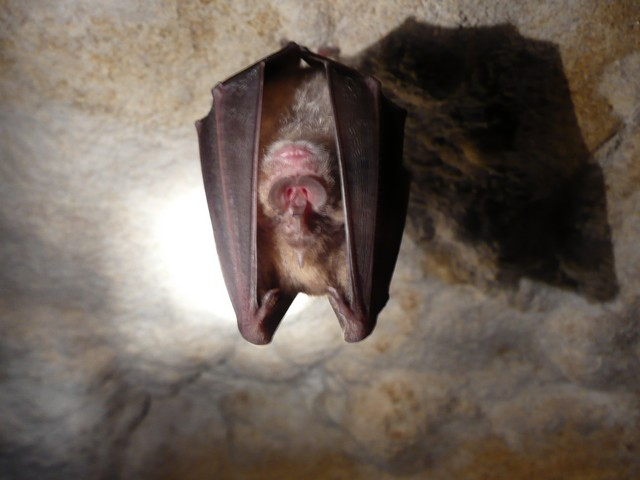 Grand Rhinolophe, Dordogne, 24